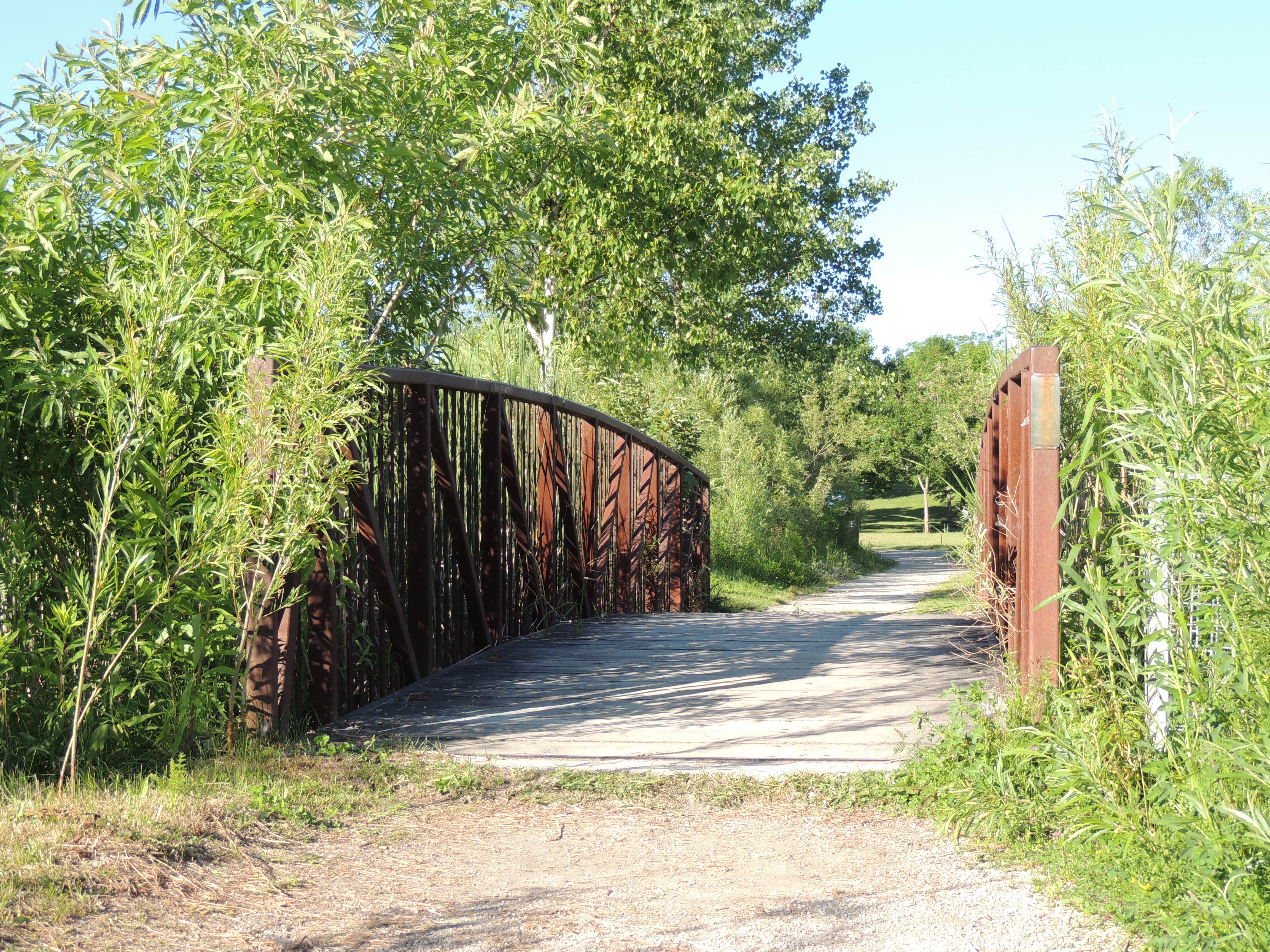 A bridge at Toogood park. Photo taken with a Nikon Coolpix P510.